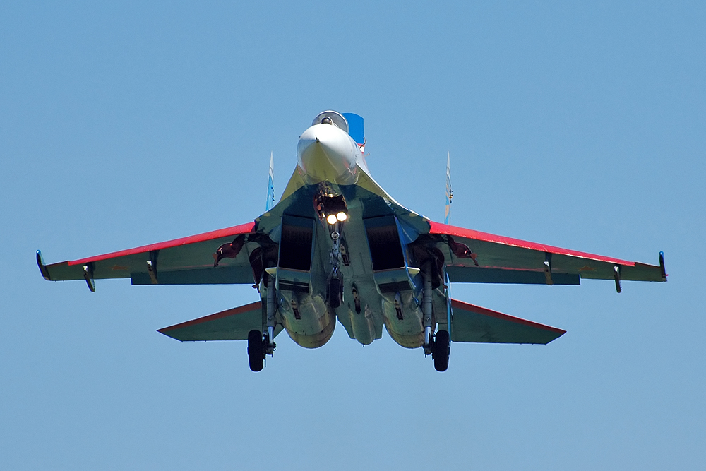 Su-27 from Russian Knights aerobatic team